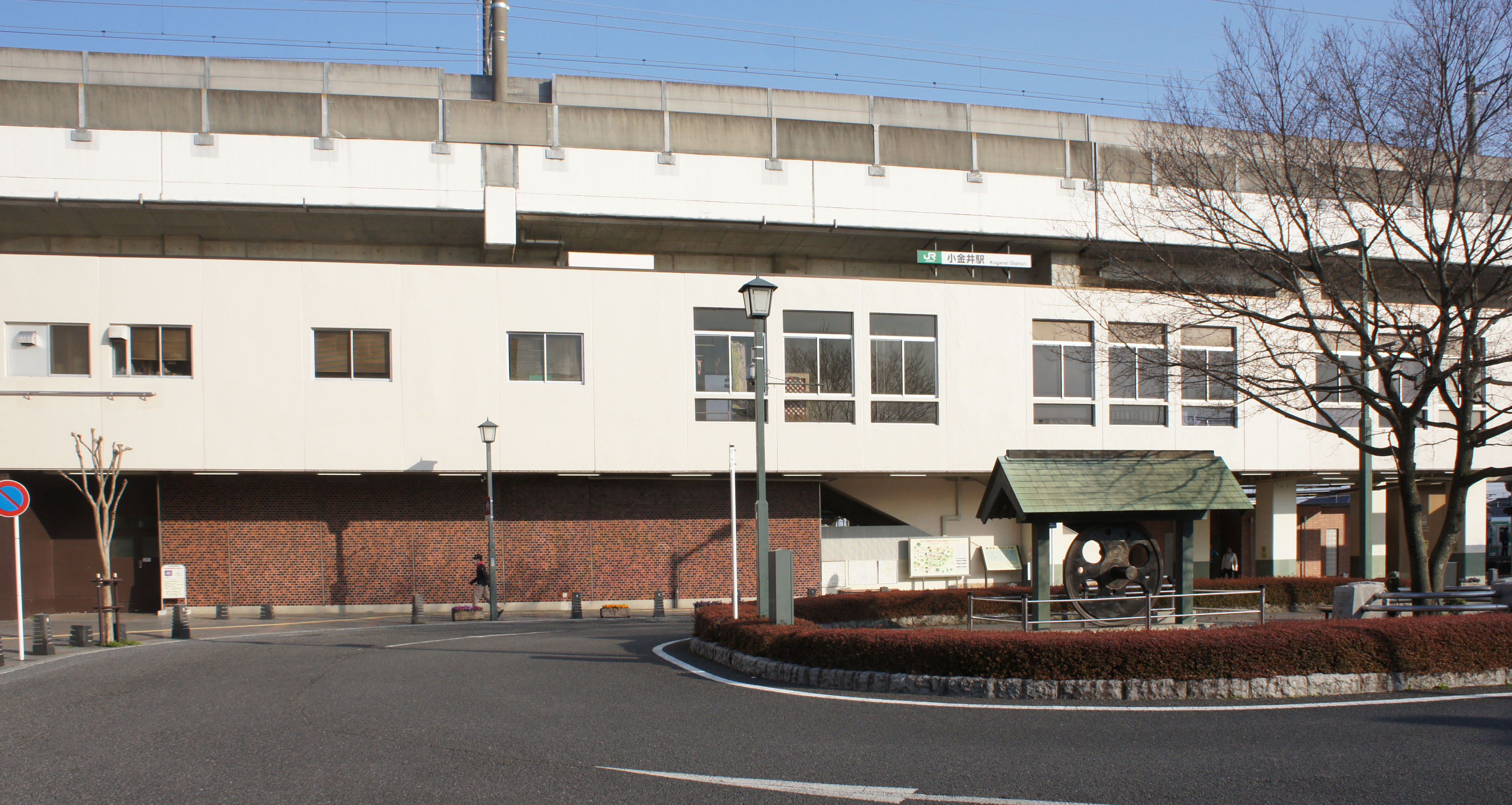 West Exit of JR Tohoku-Main-Line (Utsunomiya-Line) Koganei Station Sony NEX-3